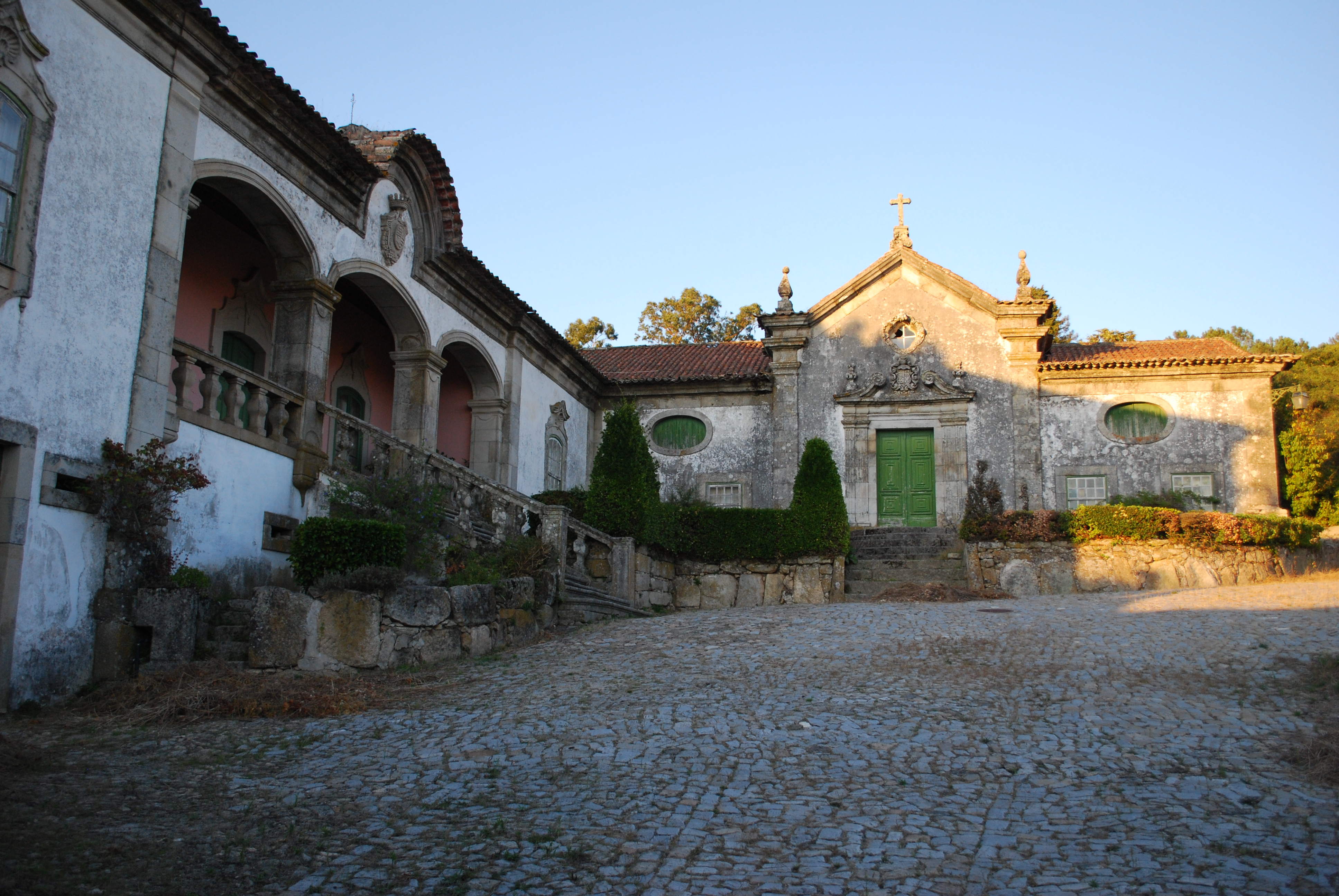 This file was uploaded for Wiki Loves Monuments in Portugal with the unique identifier 74599.